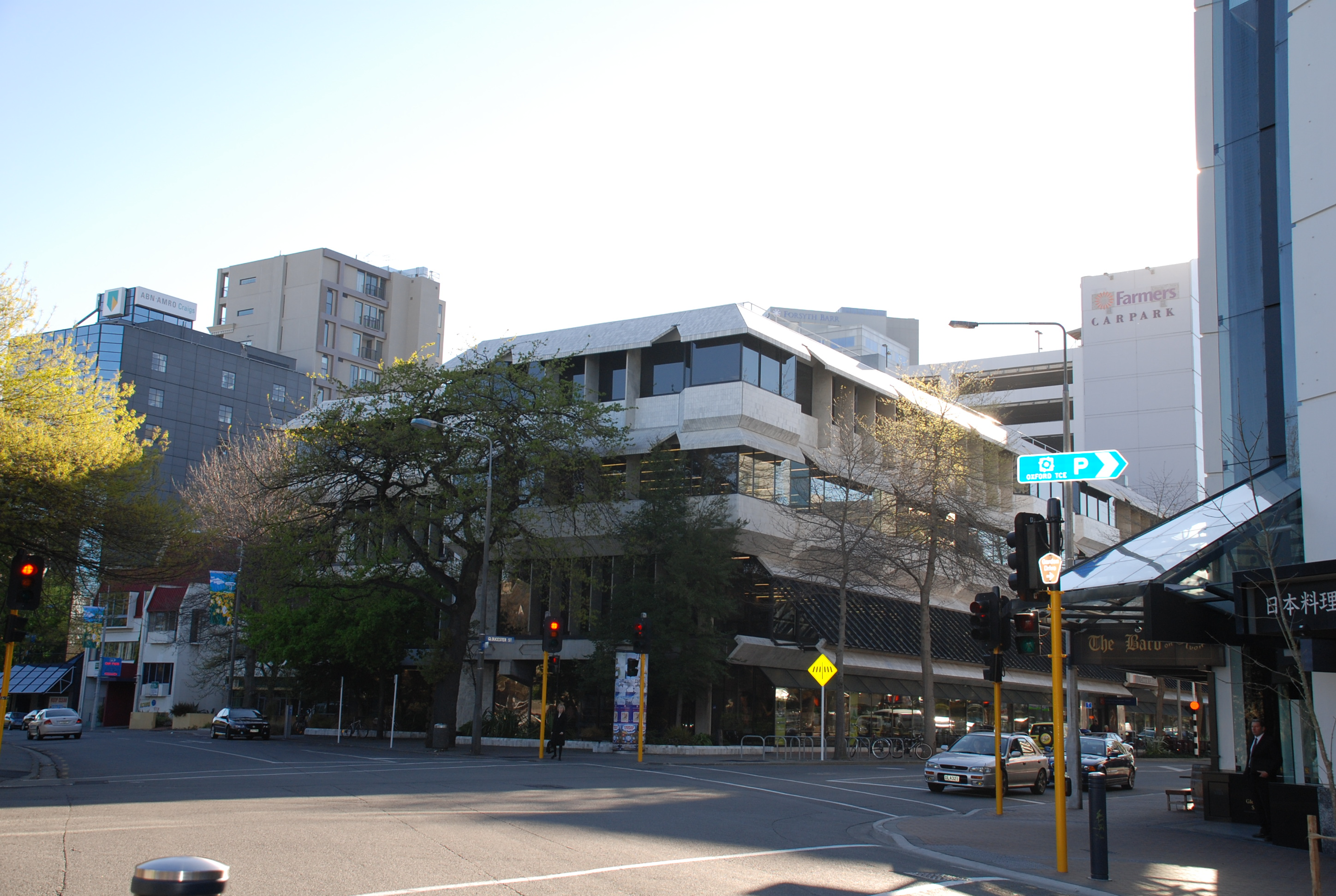 I took these photos of Christchurch's central city as reference images for a school painting project back in 2007. Usually, I wouldn't bother with uploading a bunch of photos like this, but considering the recent earthquakes and the devastation they've caused to the inner city, I figured they might be of use for something.